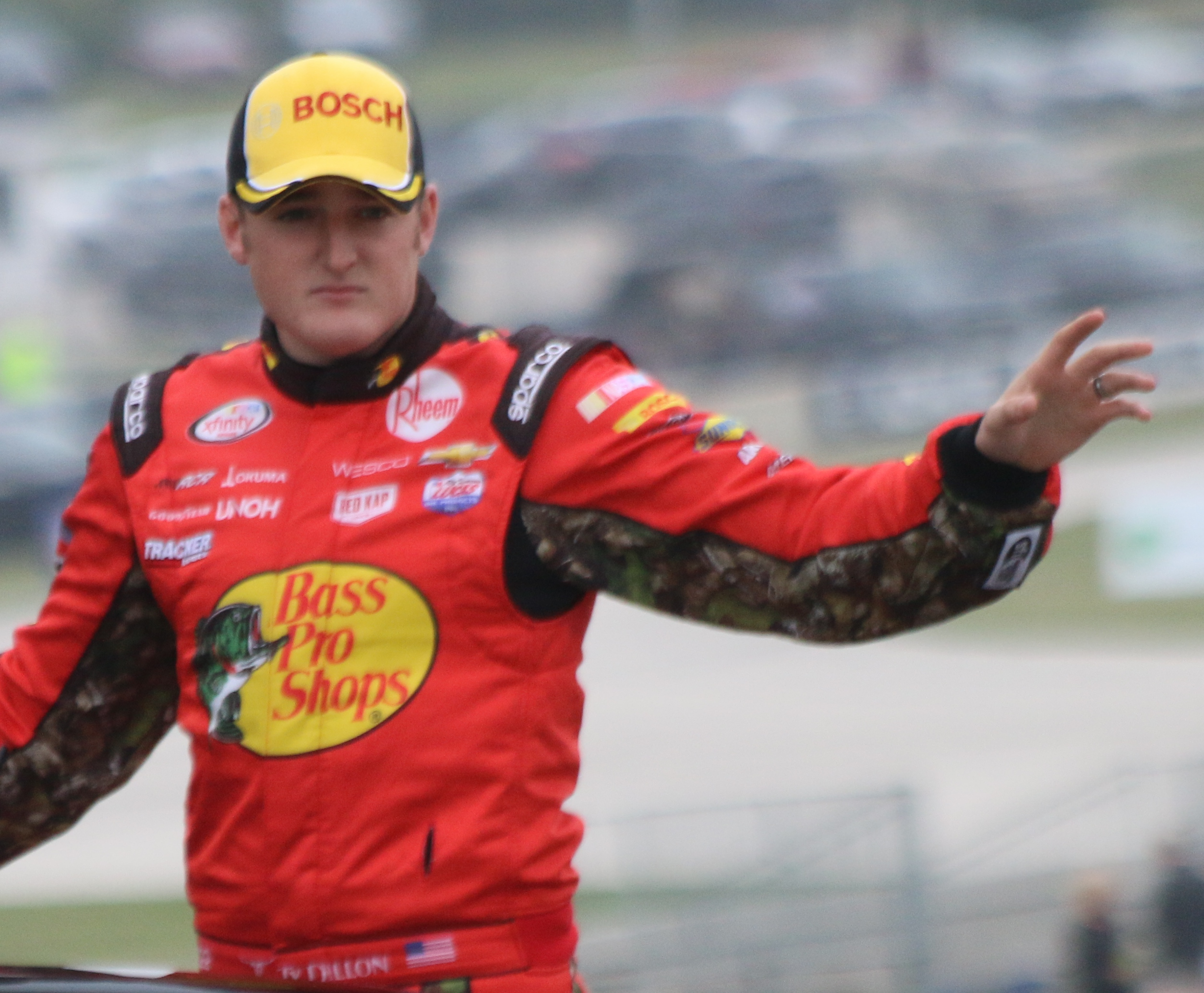 NASCAR driver Ty Dillon at the Road America 180.